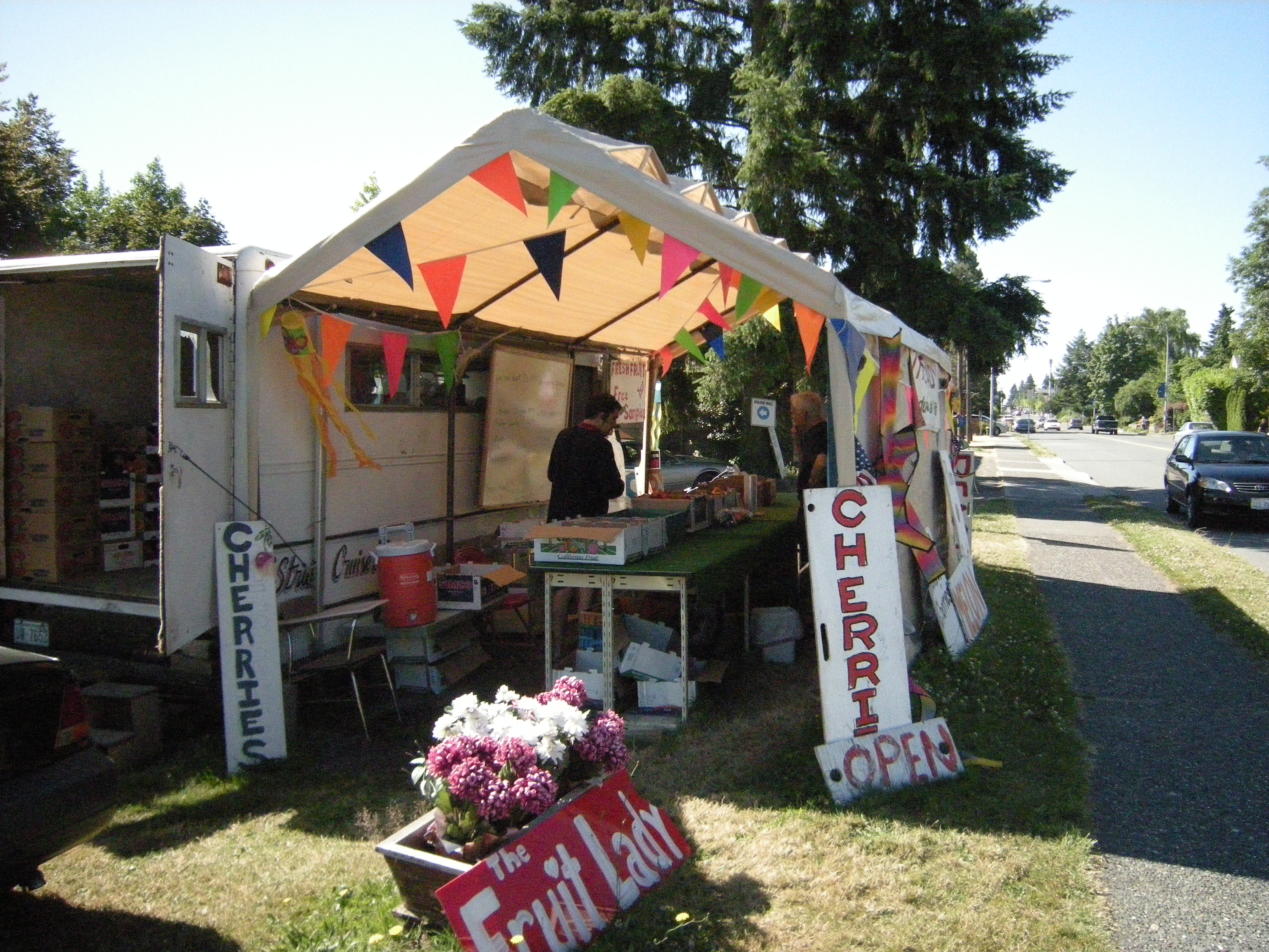 "The Fruit Lady", fruit stand on 35th Avenue NE in the Wedgwood neighborhood, Seattle, Washington.